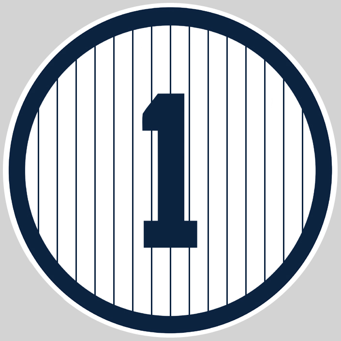 Image represents the current version of Billy Martin's No. 1 seen in Monument Park in Yankee Stadium